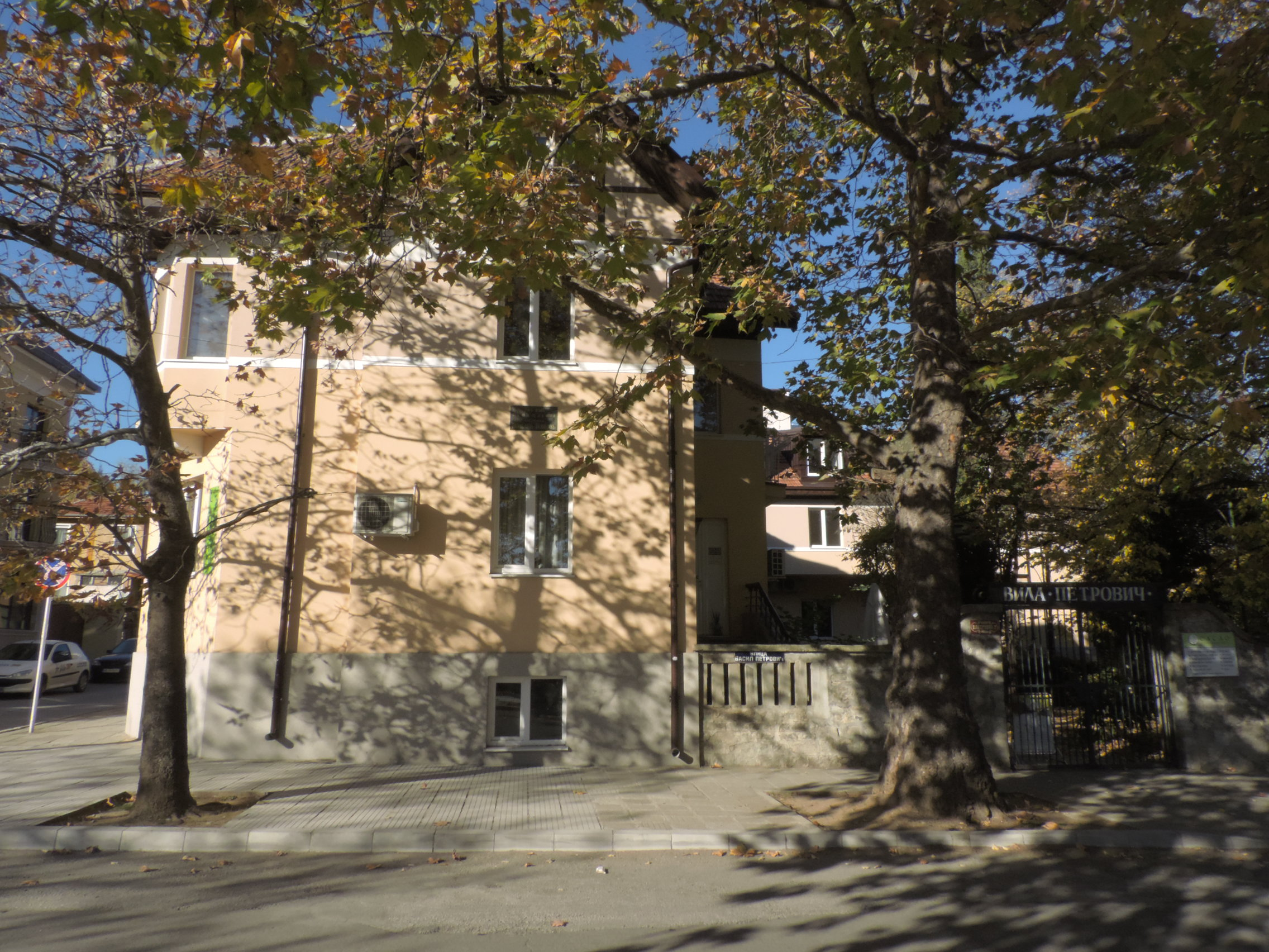 Villa Petrovich in Hisarya, Bulgaria